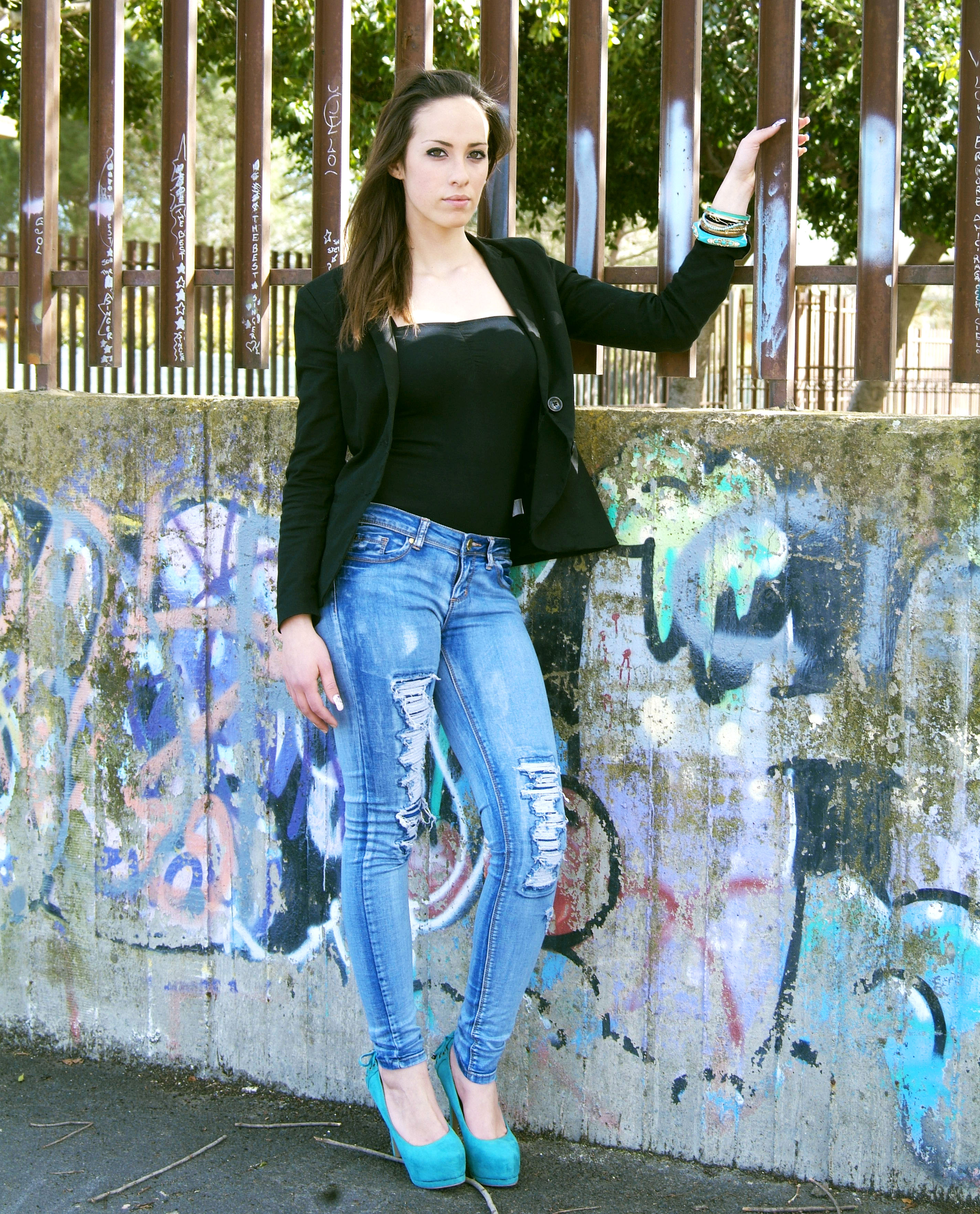 Italian teenager wearing the latest sporty fashions of spring 2013 taken in Sicily